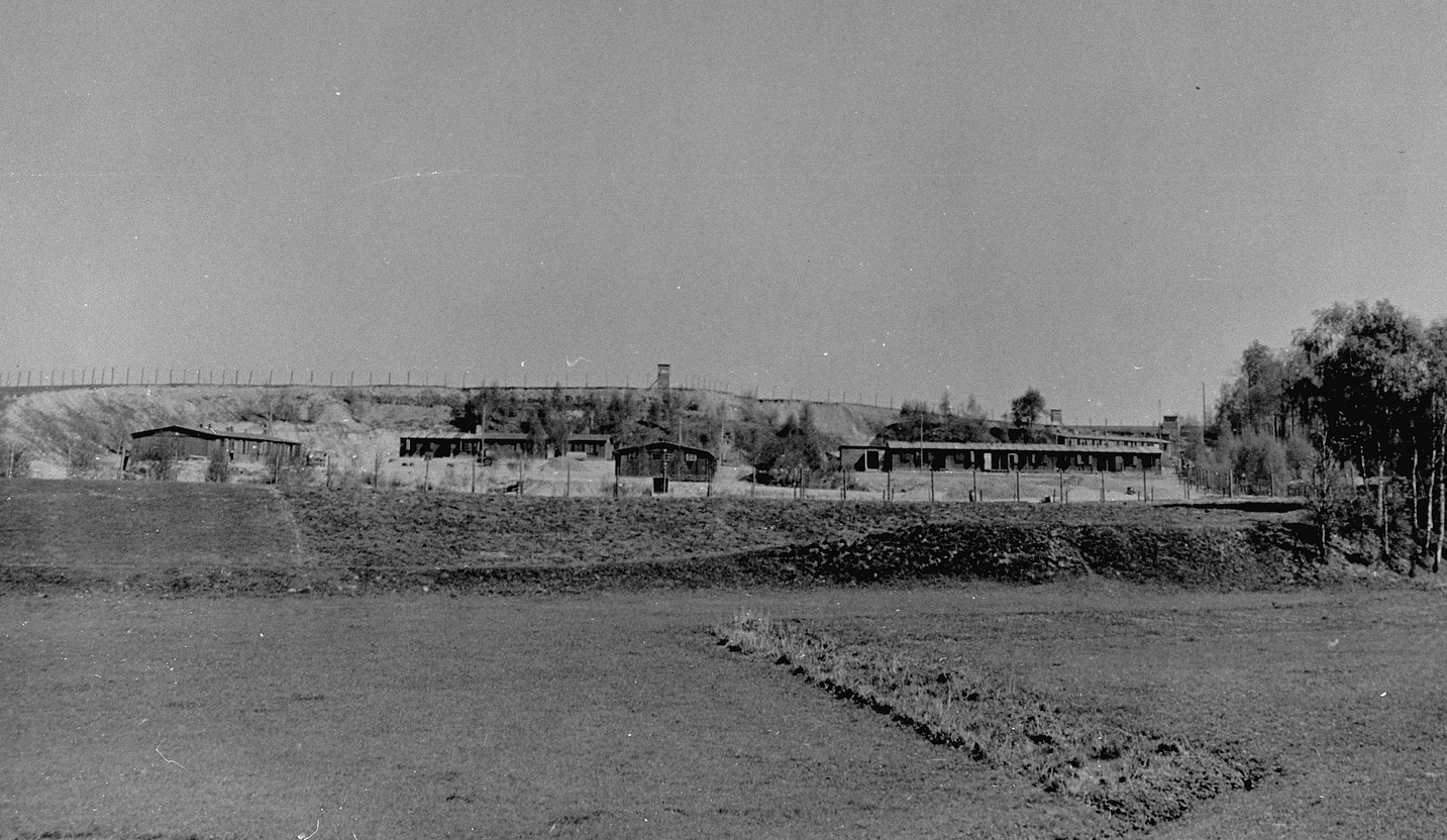 See title